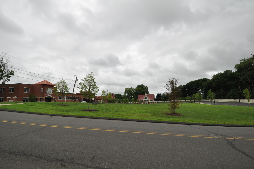 Former site of the Kensington Grammar School-Jean E. Hooker High School, Berlin, Connecticut. Now a parking lot a stages of the cross for St. Paul's Church.